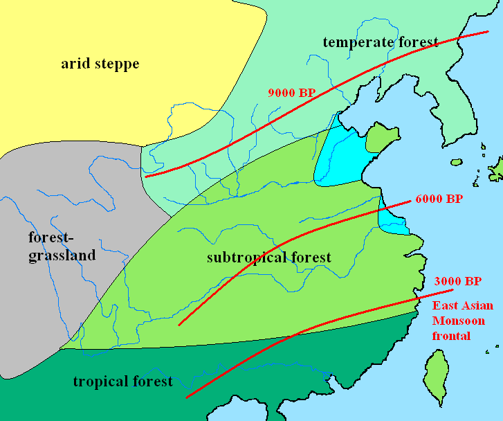 maximum positions of the East Asian Monsoon frontal around 9000, 6000 and 3000 BP and paleovegetation map for 6000 BP